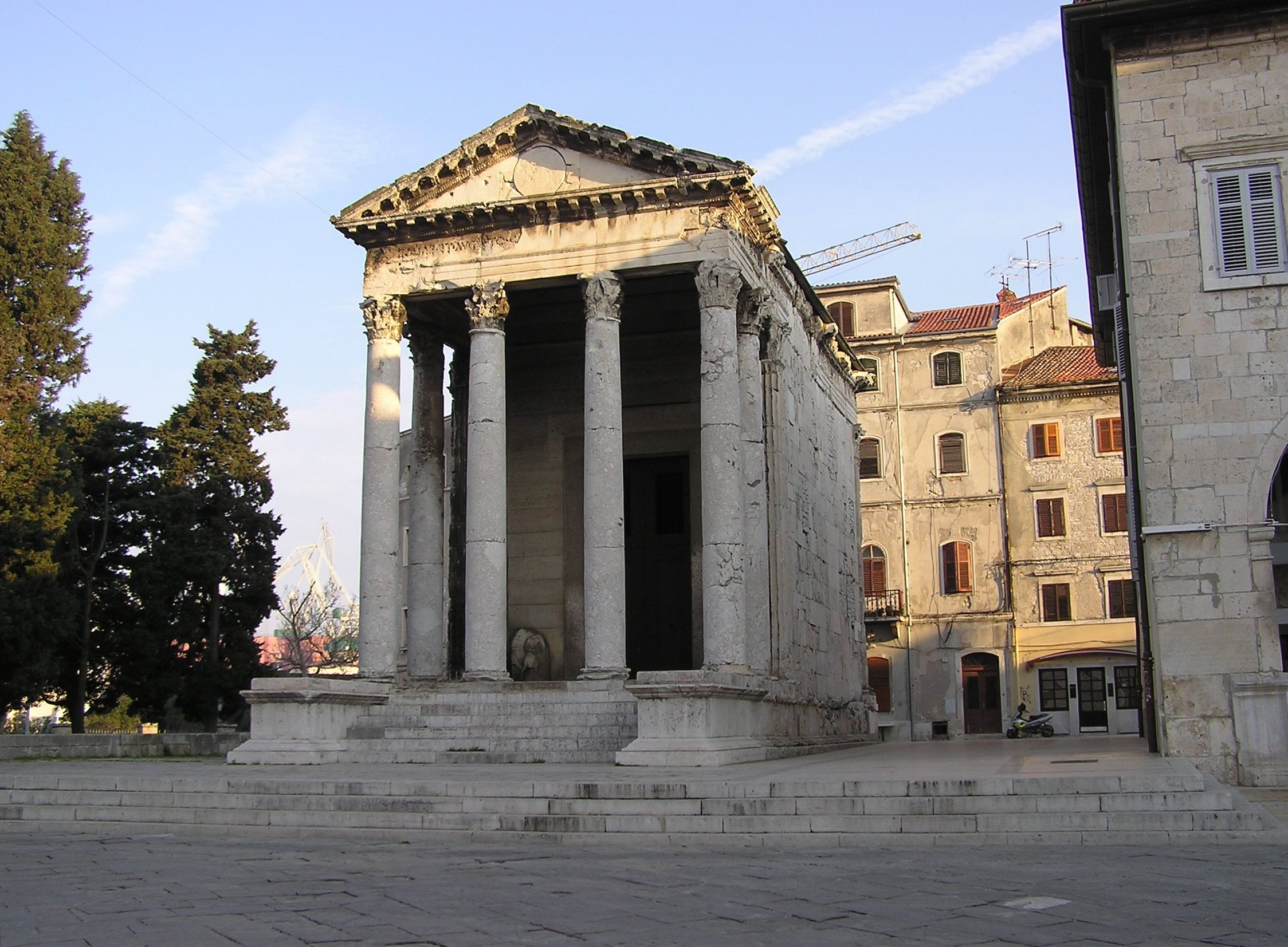 The Roman temple of Augustus, Pula, Croatia. self-made